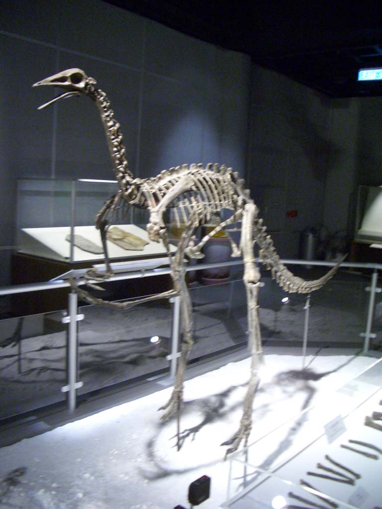 Archaeornithomimus skeleton displayed in Hong Kong Science Museum